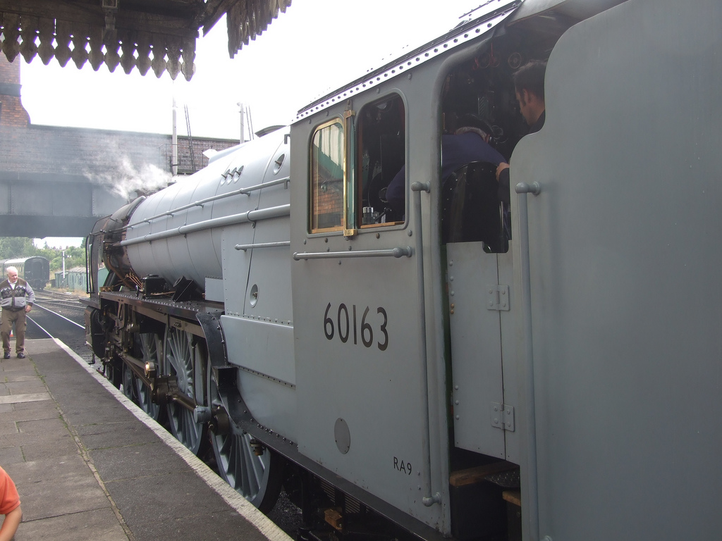 60163 Tornado at the Grand Central Railway, 22 August 2008